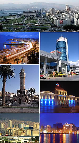 Photos used in this montage (from top to bottom and from left to right: 1.View of Konaj Square.jpg 2.Basmane Gar, Izmir.jpg 3.IMAG0647.jpg 4.Crowne Plaza İzmir.jpg 5.Izmir Cumhuriyet meydani gece.jpg 6.İzmir Devlet Opera ve Balesi.jpg 7.Karsiyaka carsi, iskeleden.jpg